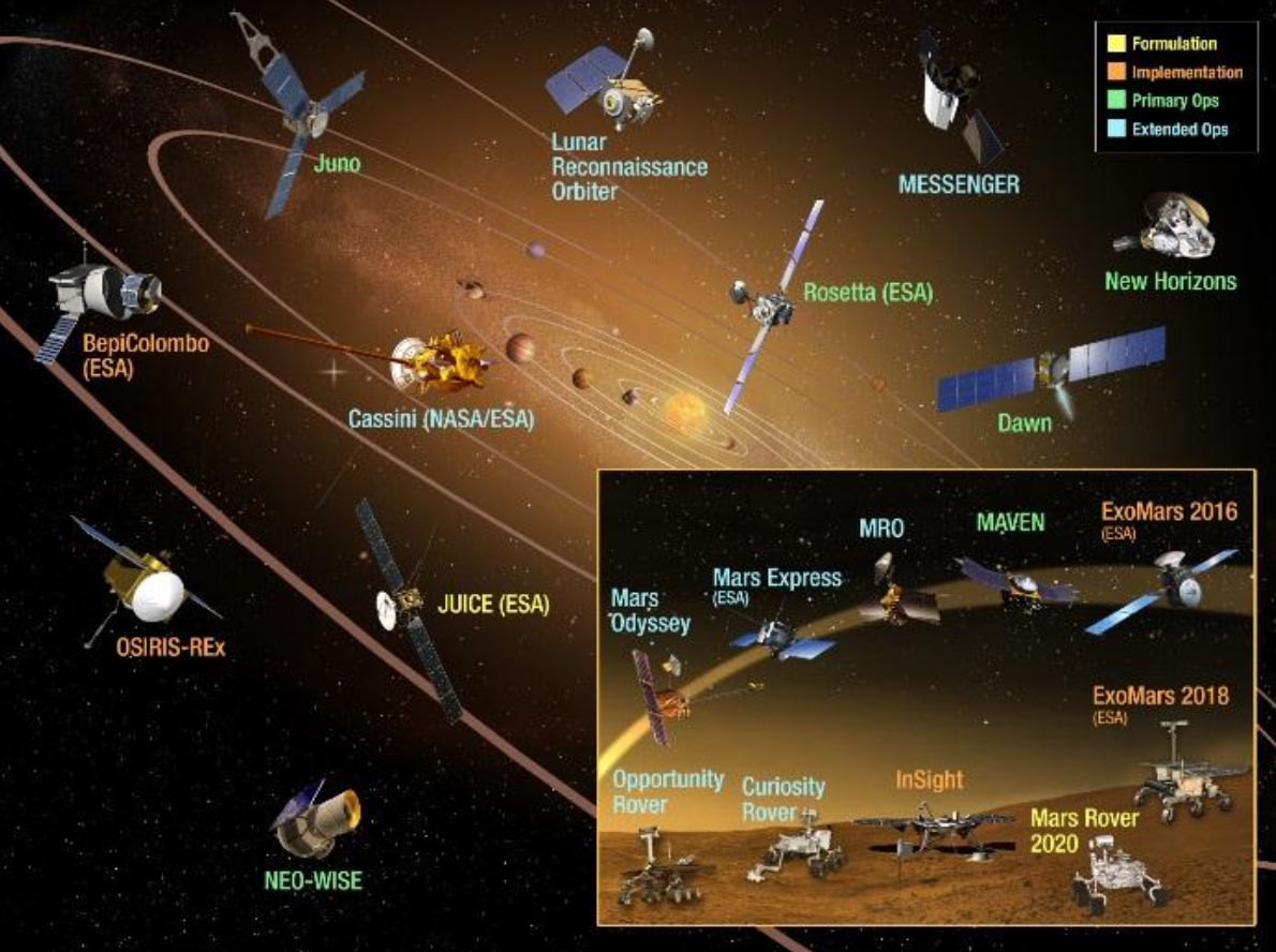 NASA planetary science missions feb 2015